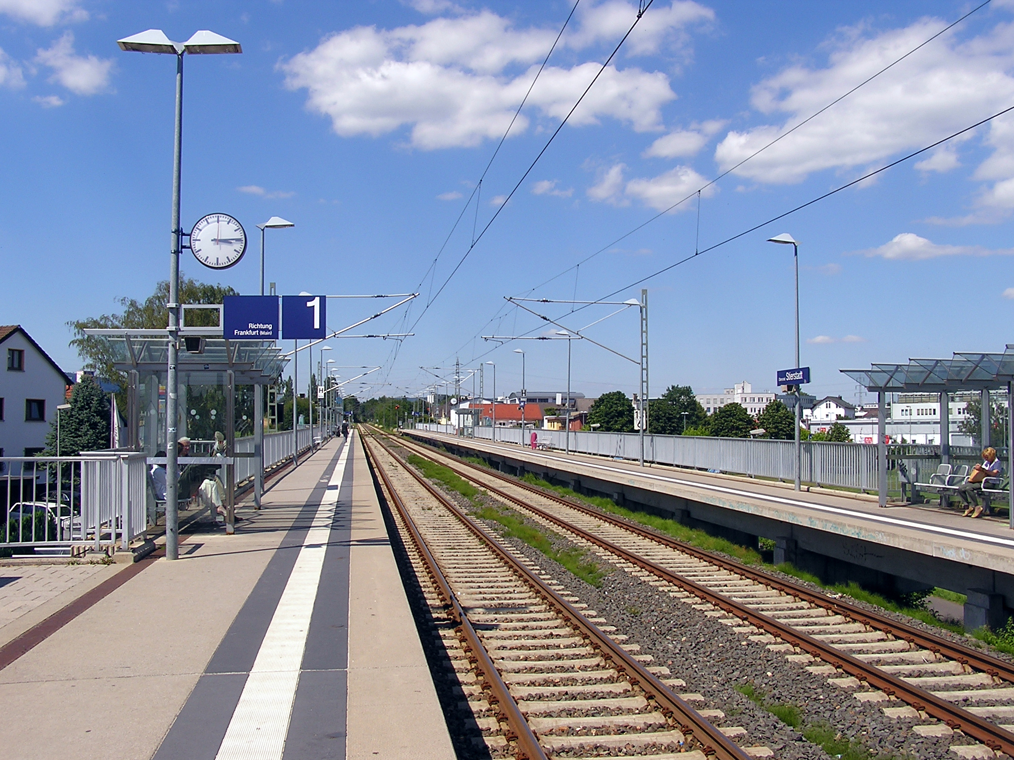 The stop Oberursel-Stierstadt was built in 1998 at both sides of the embankment